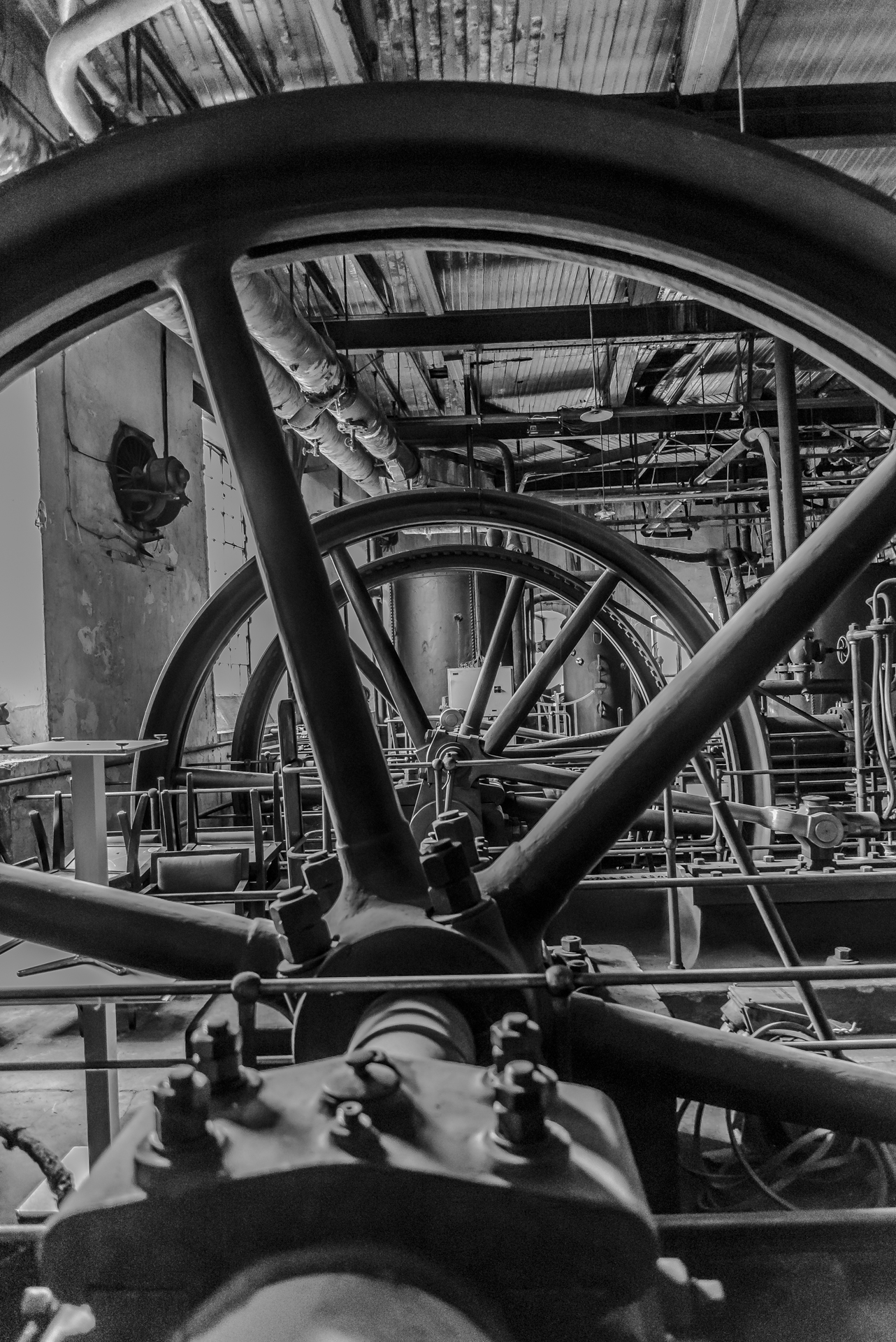 Old icehouse of Strasbourg. .